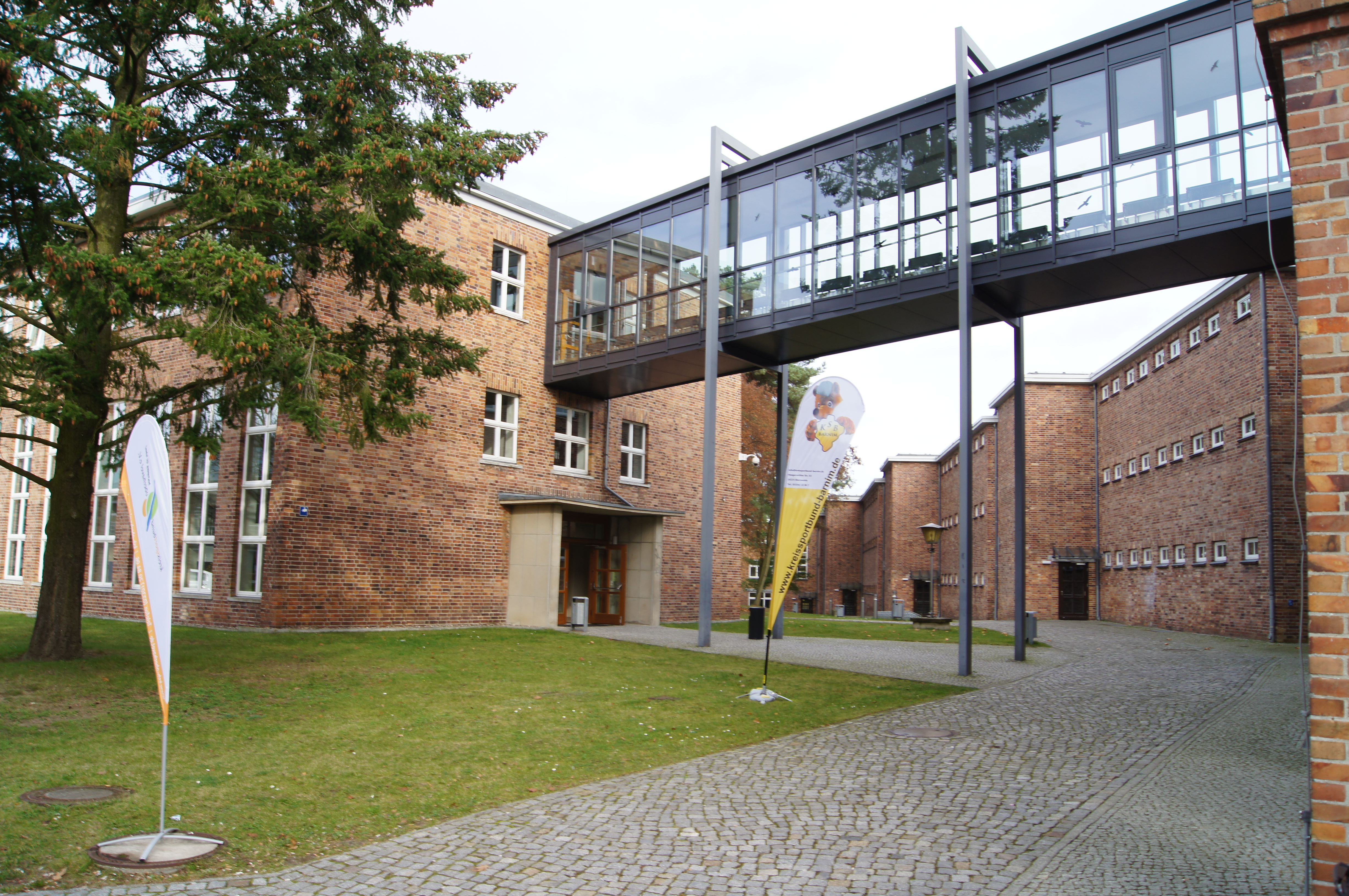 ADGB School Bernau, Brandenburg, Germany